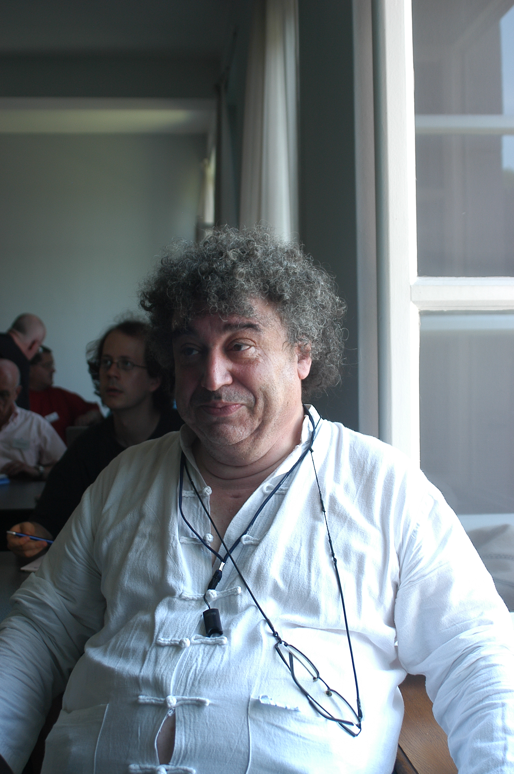 Philippe Flajolet at the Analysis of Algorithms international conference (July 2006, in Tienen, Belgium).